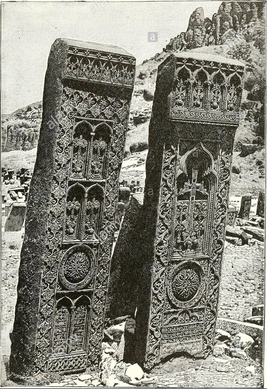 Cross-stones or Khachkars. Illustration from With the World's People by John Clark Ridpath (Clark E Ridpath, 1912).